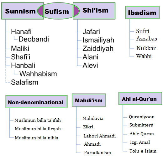 Muslim self-designated epithets or forms of self-identifiers